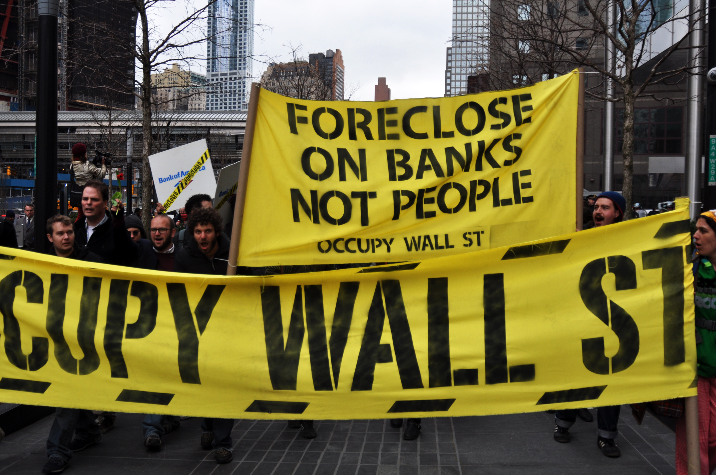 Occupy Bank of America March 15, 2012, Occupy Wall Street targets BofA with a rally and march. Activists "moved in" to a branch by setting up a sidewalk living room on the theory that 'the bank took our homes so we're moving in with them.' A half dozen people were arrested.